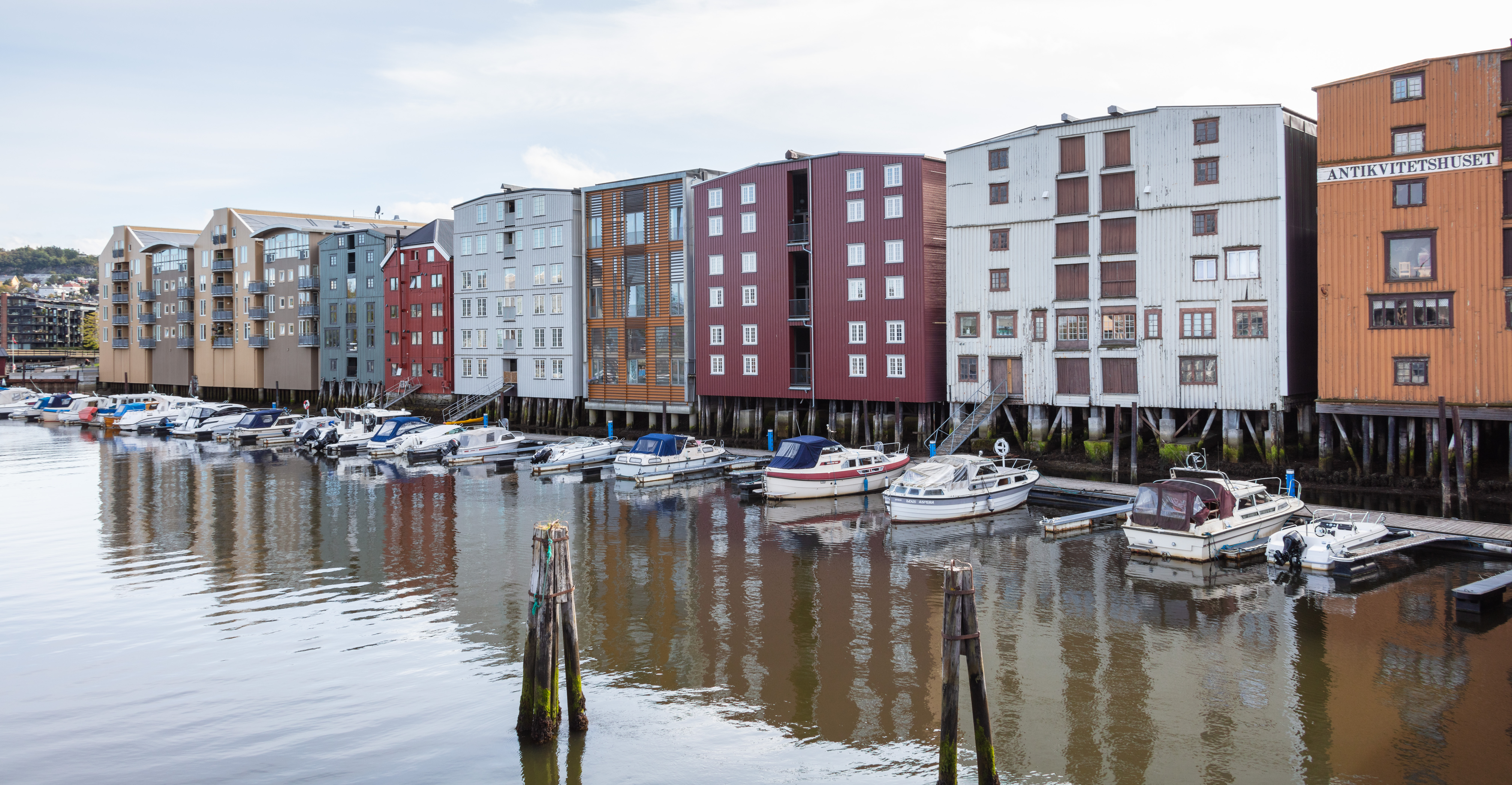 Buildings along the Nidelva river, Trondheim, Norway